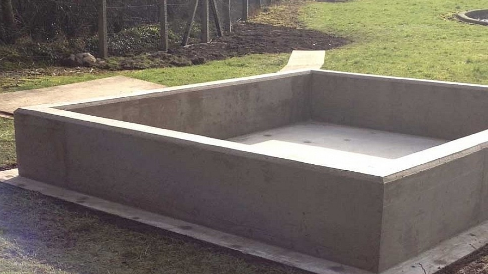 Photograph a new concrete bund